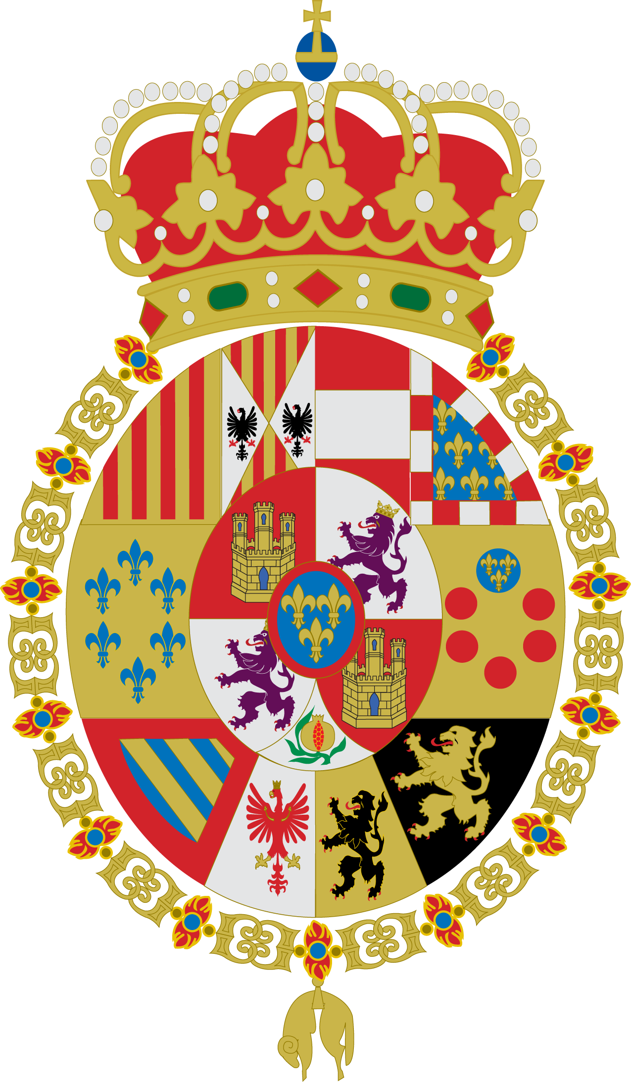 Coat of arms of Charles III, Charles IV, Ferdinand VII, Isabella II, Alfonso XII and Alfonso XIII of Spain